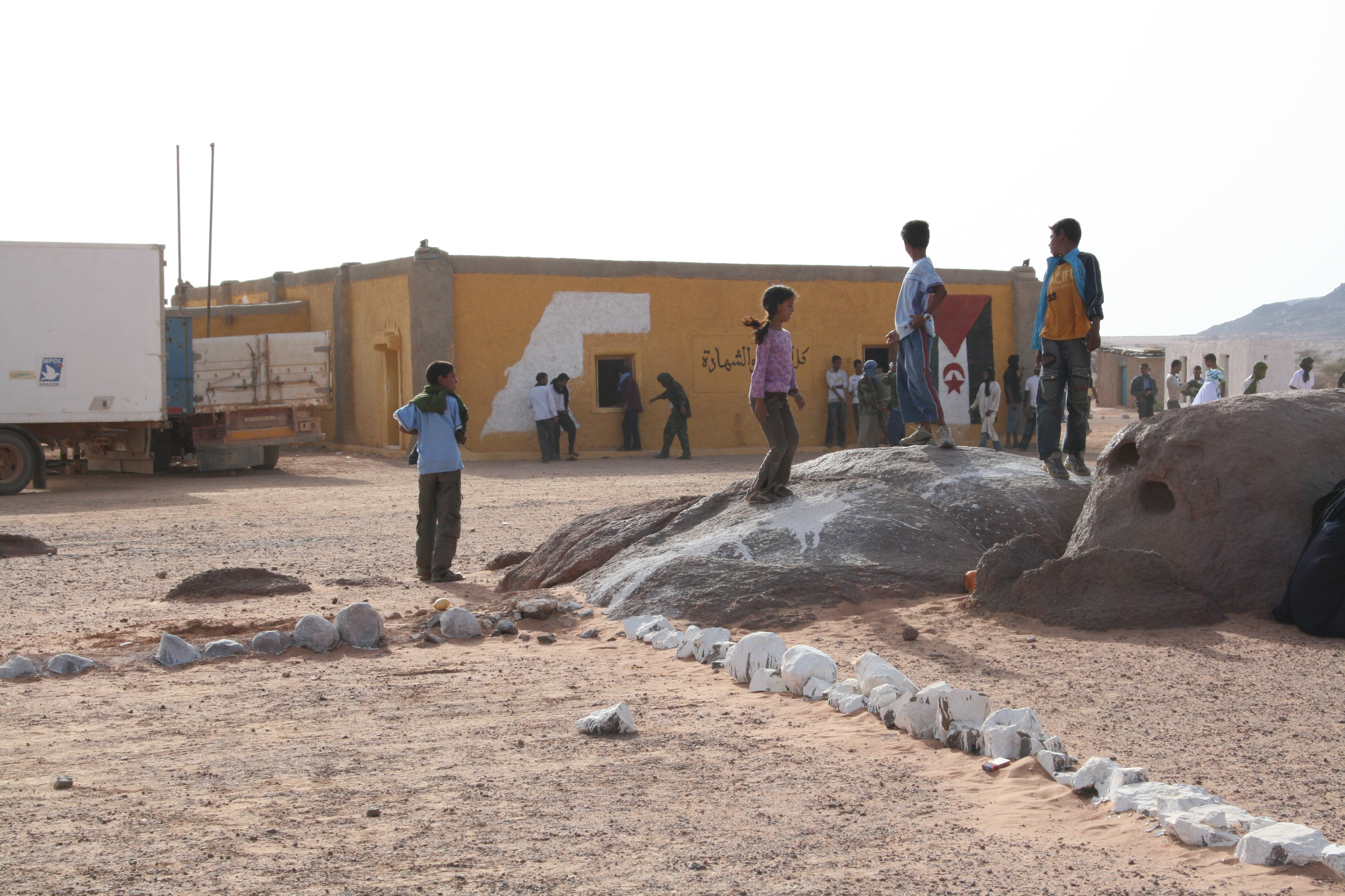 The Summer University of Tifariti. Taken in August 2009.